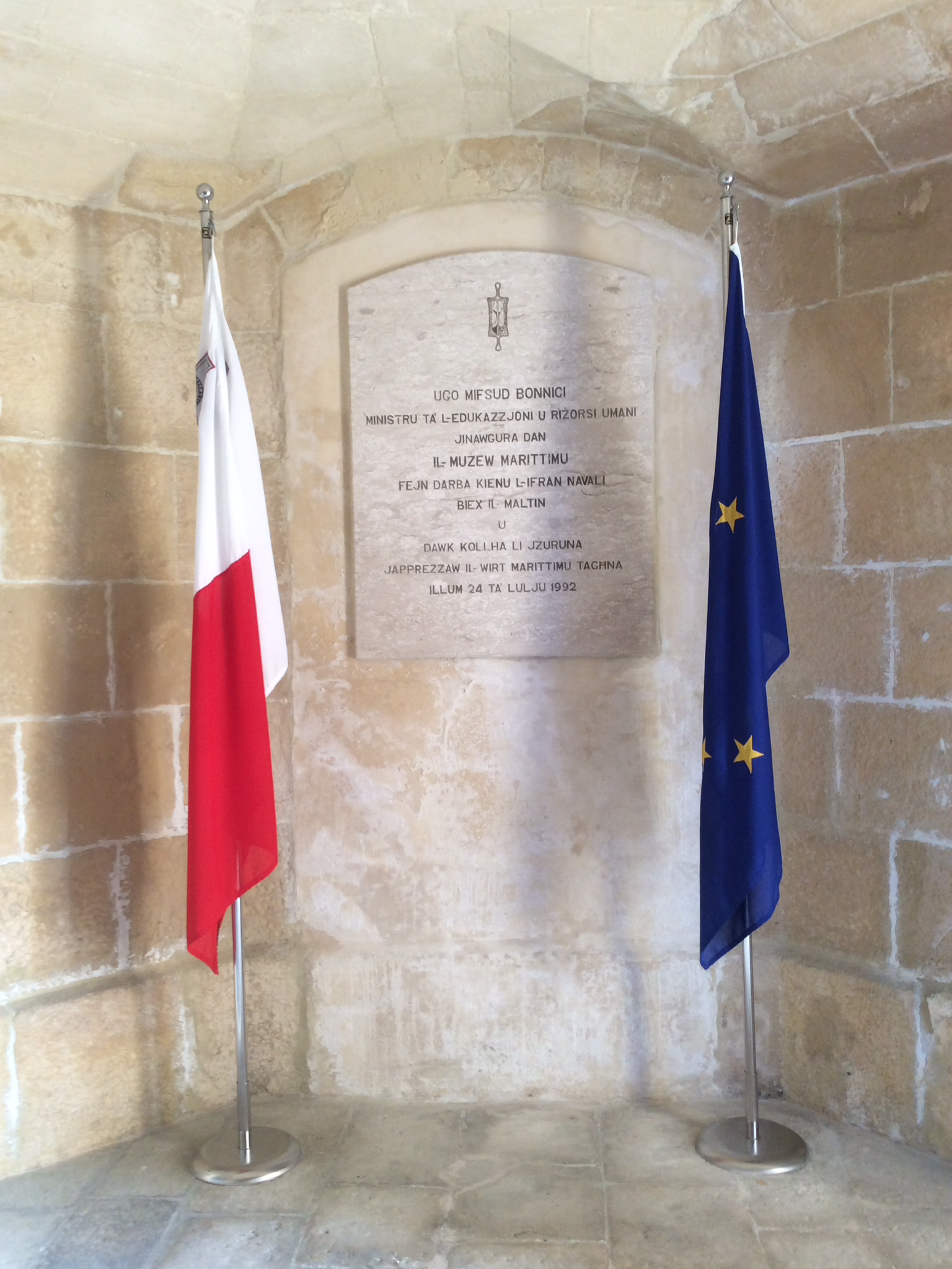 Commemorative plaque of the opening of the Malta Maritime Museum